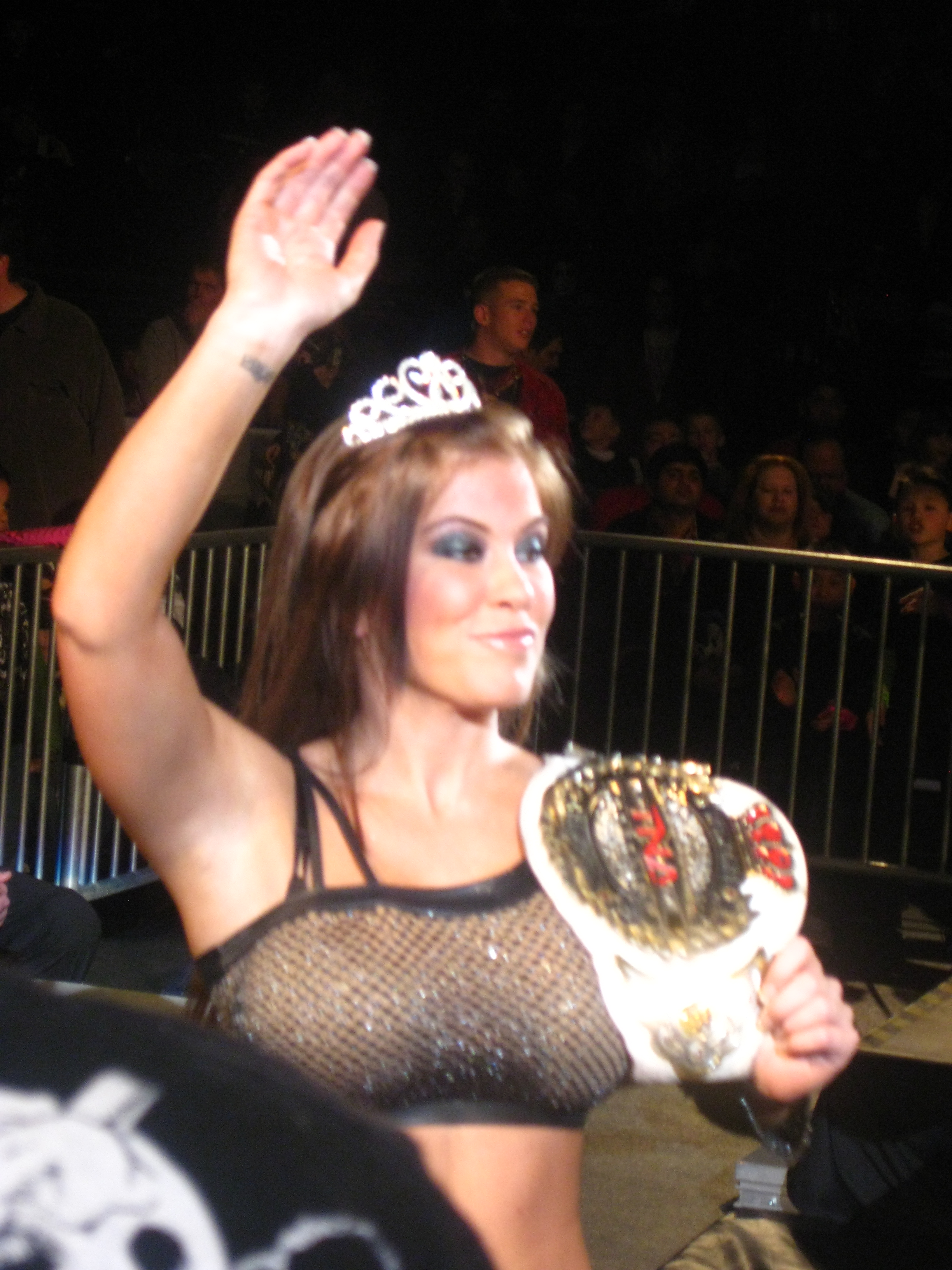 A TNA Live! Event at the ShoWare Center in Kent, WA. No PRO cameras were allowed so I had to put my Canon PowerShot SD1100 IS to work!